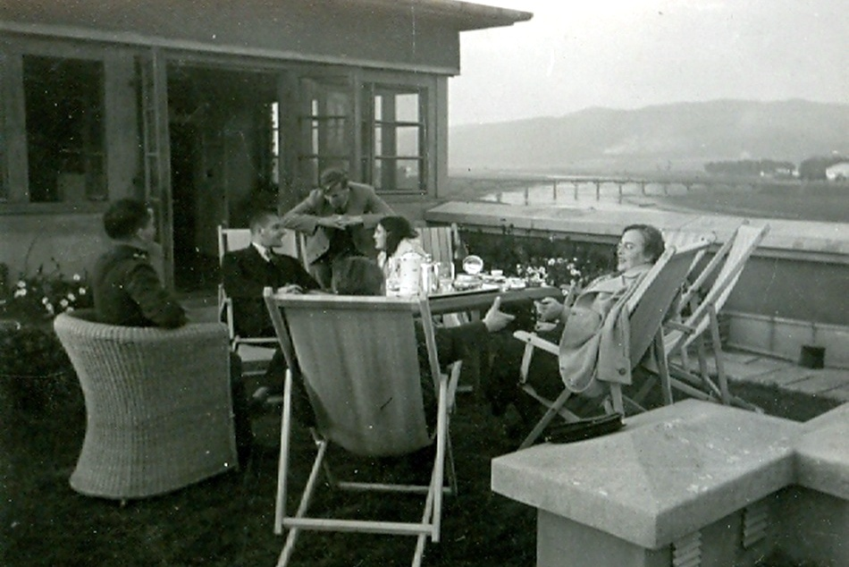 Sanok